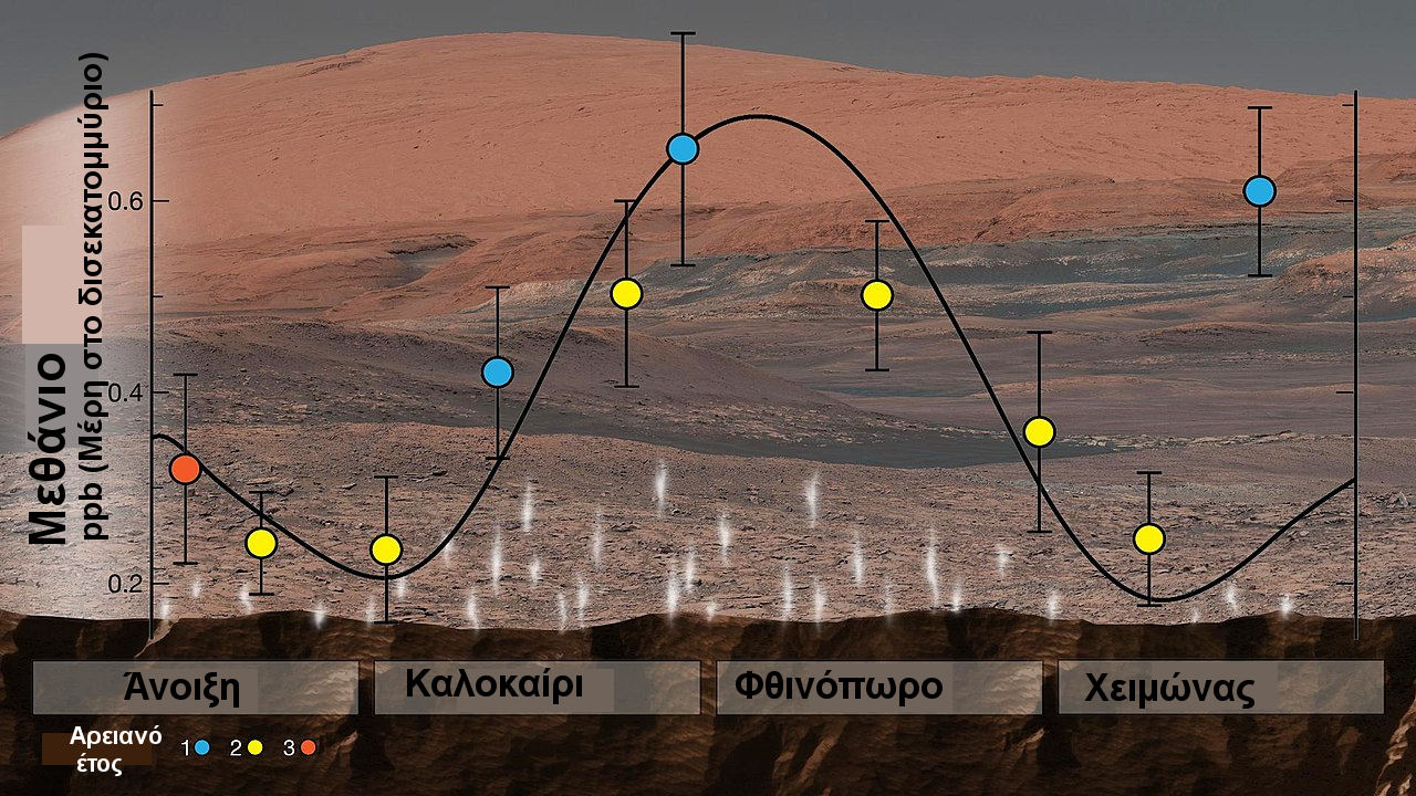 Translation of File:PIA22328-MarsCuriosityRover-Methane-SeasonalCycle-20180607.jpg into Greek